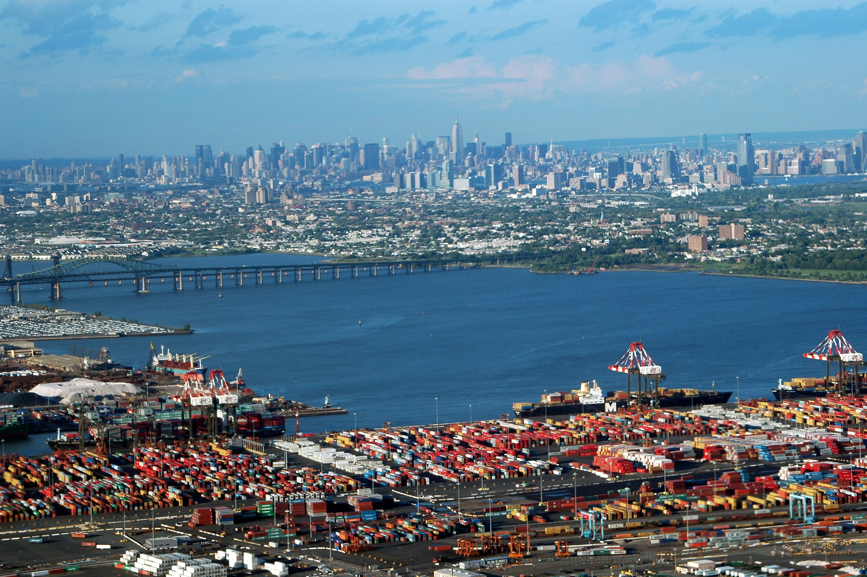 The island of Manhattan, Jersey City, Newark Bay, and areas of the New York / New Jersey Port seen from aboard a plane in July, 2005. See also Image:Manhattan2.jpg. Elizabeth Channel and Port Elizabeth are in foreground.